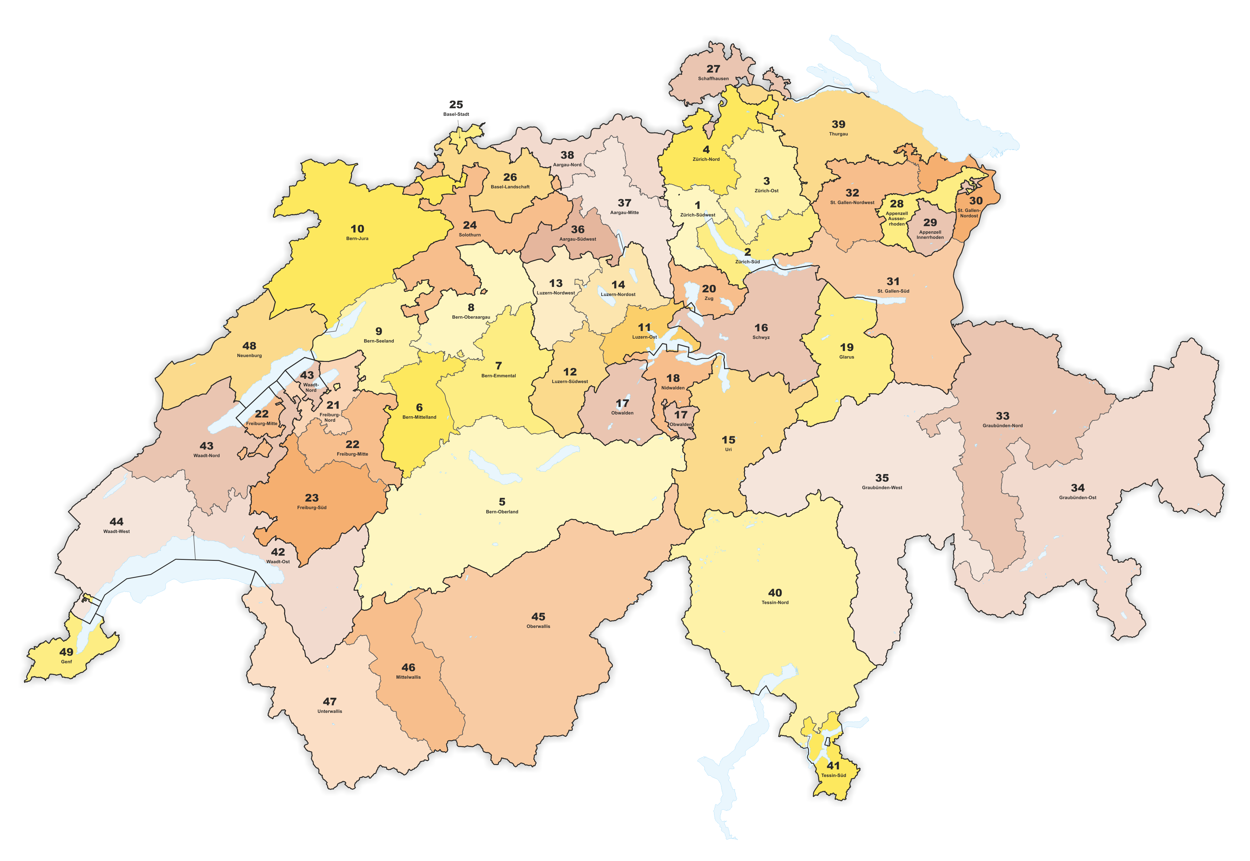 Swiss national council constituencies from 1881 to 1887